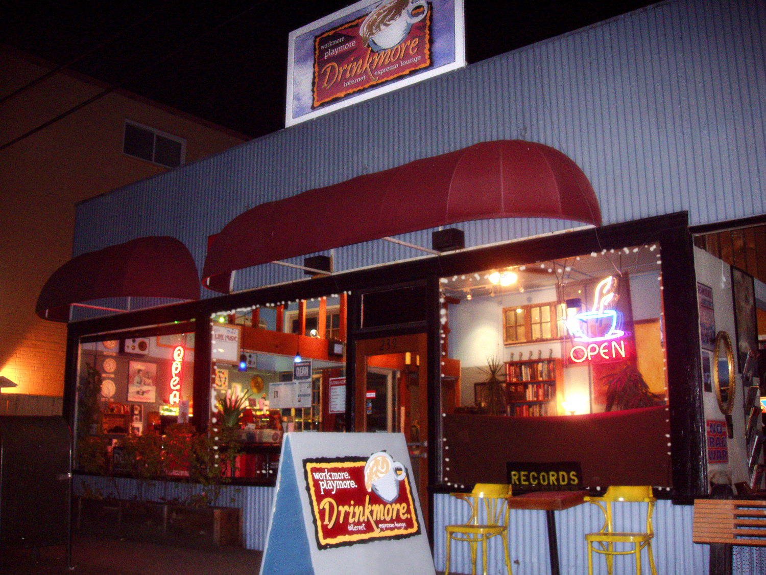 photograph of The Drinkmore Cafe at night in 2004, Seattle WA